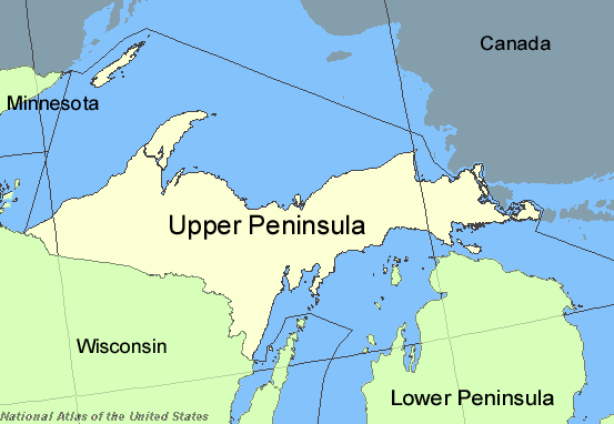 Map of Upper Peninsula of Michigan